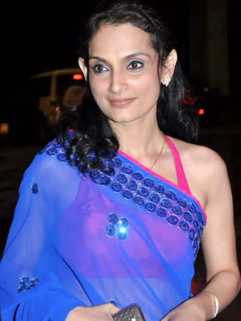 Rajeshwari Sachdev at Shweta Tiwari's wedding ceremony